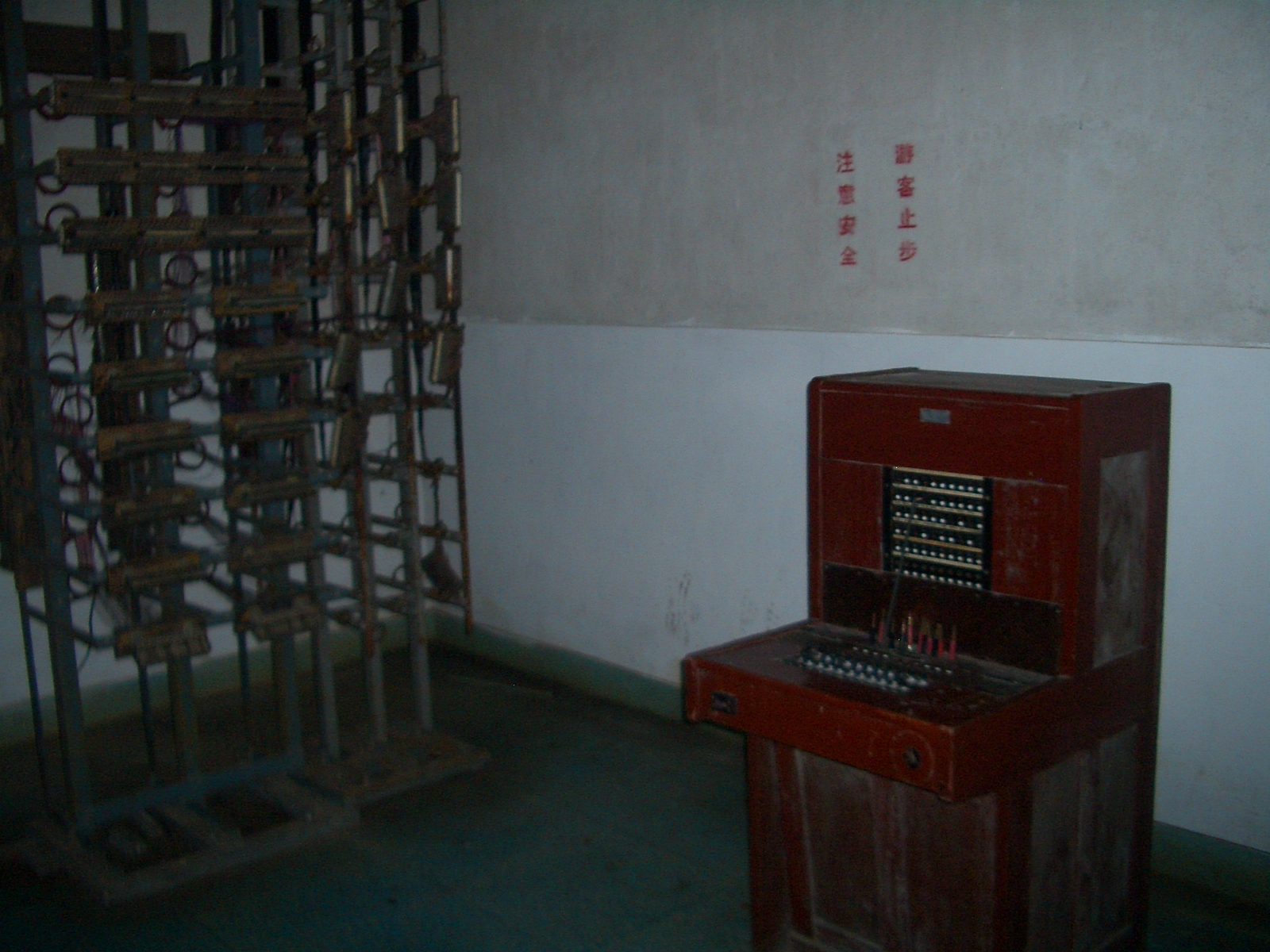 A mostly bare underground room said to have been built as the communication center for Project 131